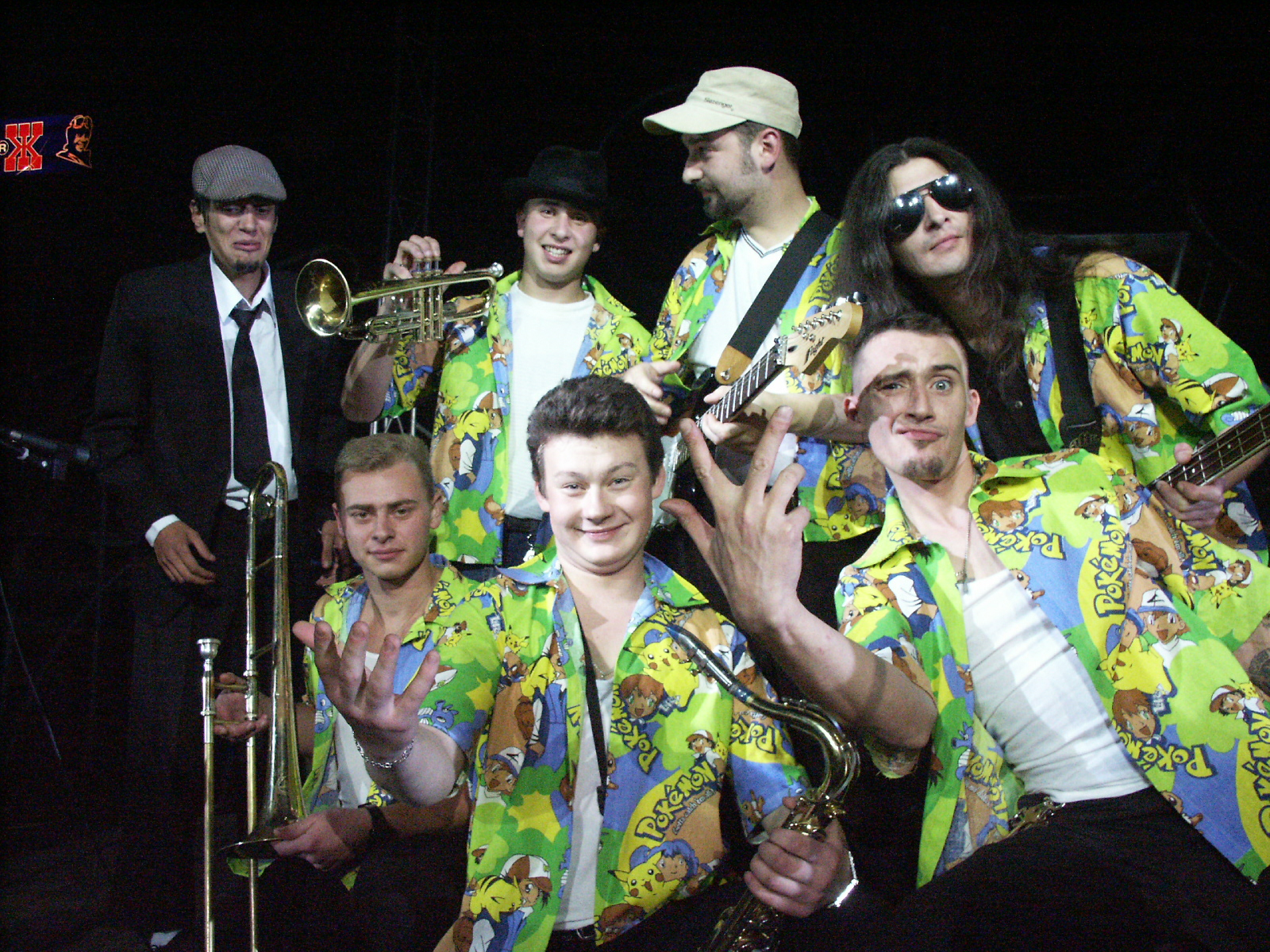 1-е место в номинации «Традиционный рок» группа «Аттракцион»